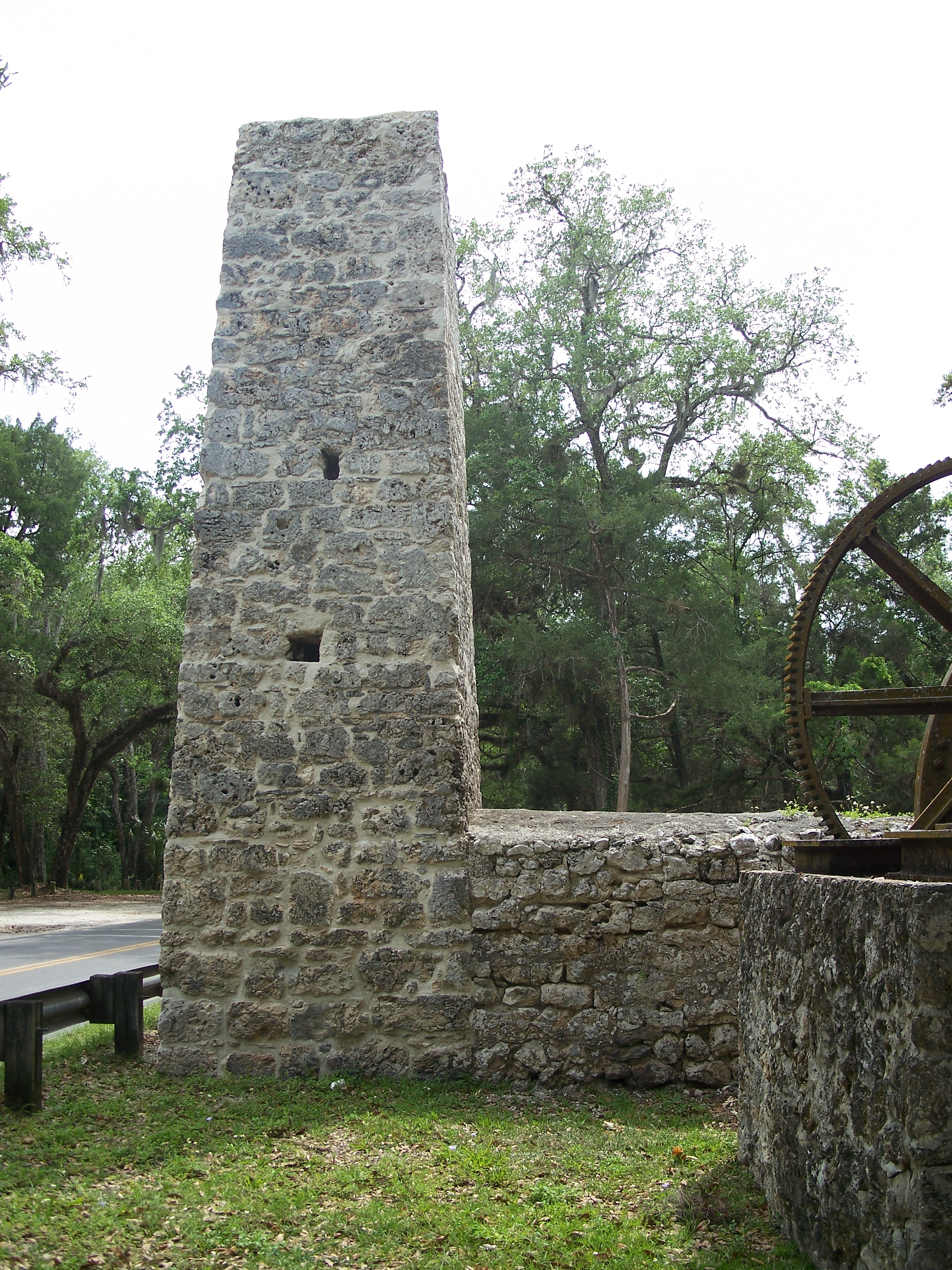 Yulee Sugar Mill Ruins in Homosassa, Florida. It is part of a Florida State Park, and on the National Register of Historic Places.